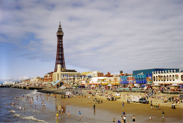 The Golden Mile, 1998